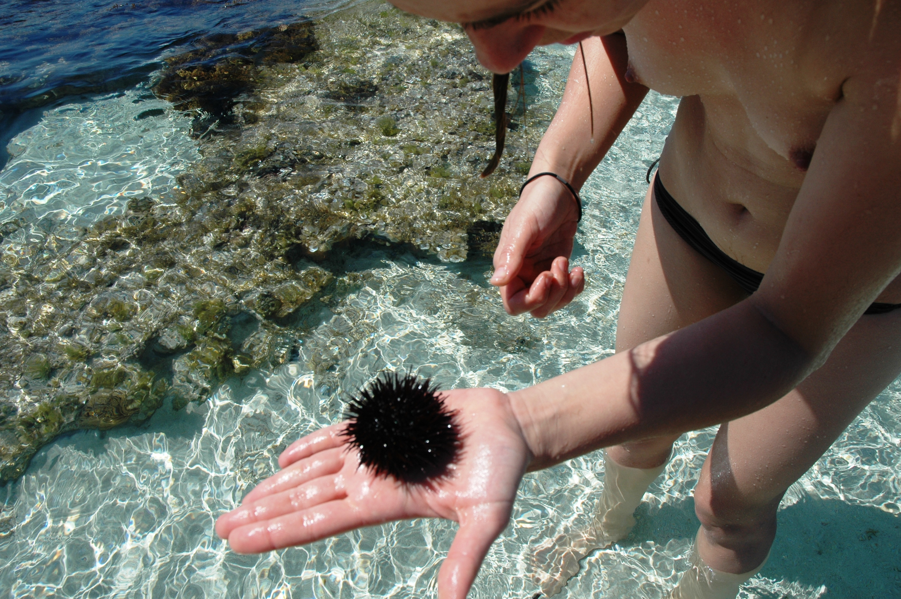 Woman with a black sea urchin (Arbacia lixula) in her hand.